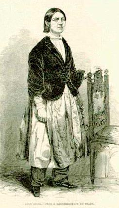 A scan of an engraving printed in Illustrated News, May 28, 1853, scanned by Kansas Historical Society, showing Lucy Stone wearing bloomers.